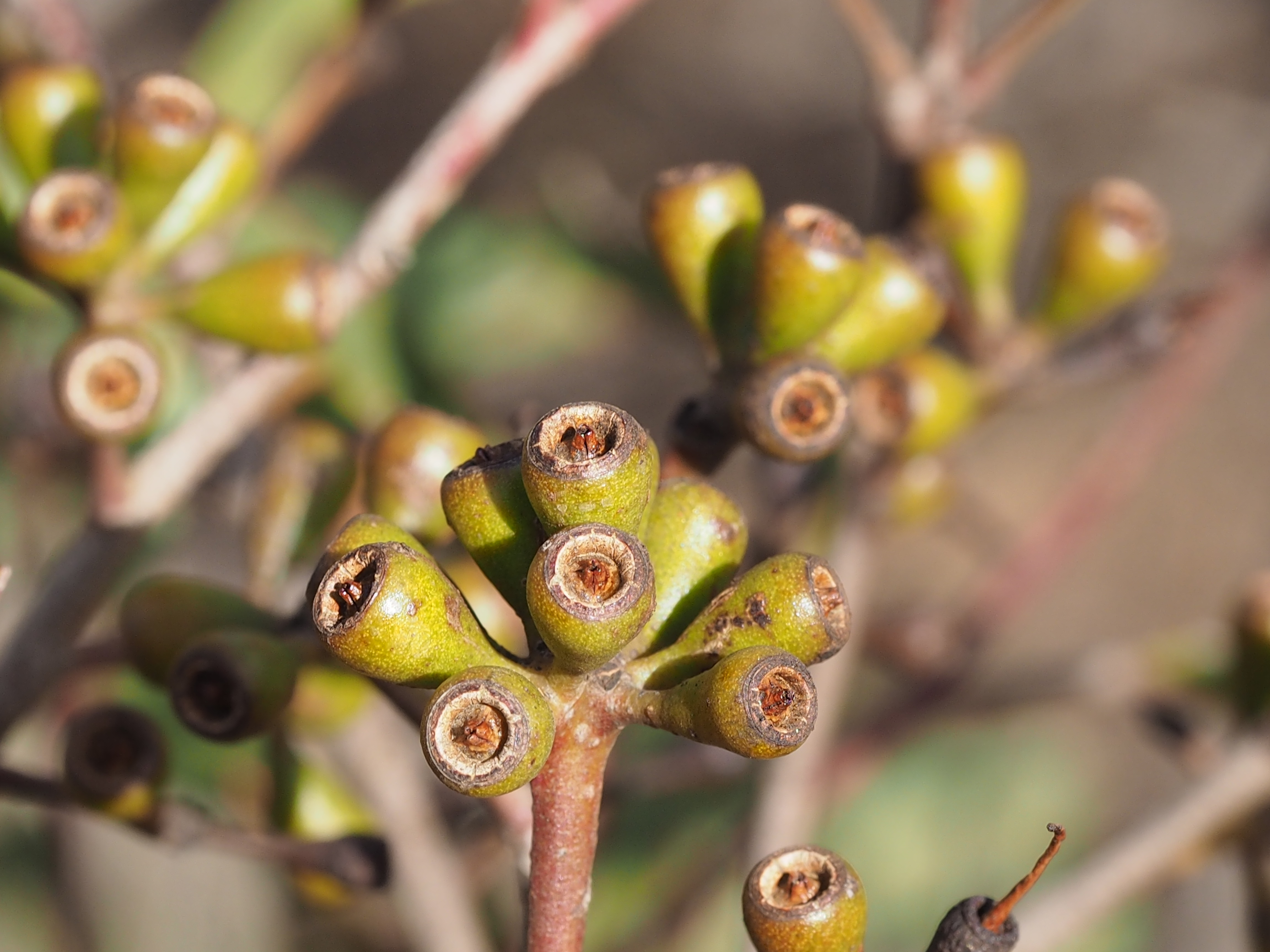 Fruit of Eucalyptus luteole near North Road, north of Ravensthorpe